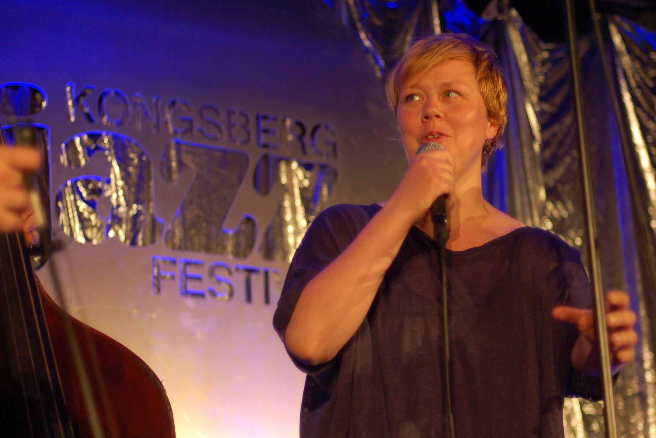 Siri Gjære at Kongsberg Jazzfestival 2011. Photo: Thomas Bjørndahl